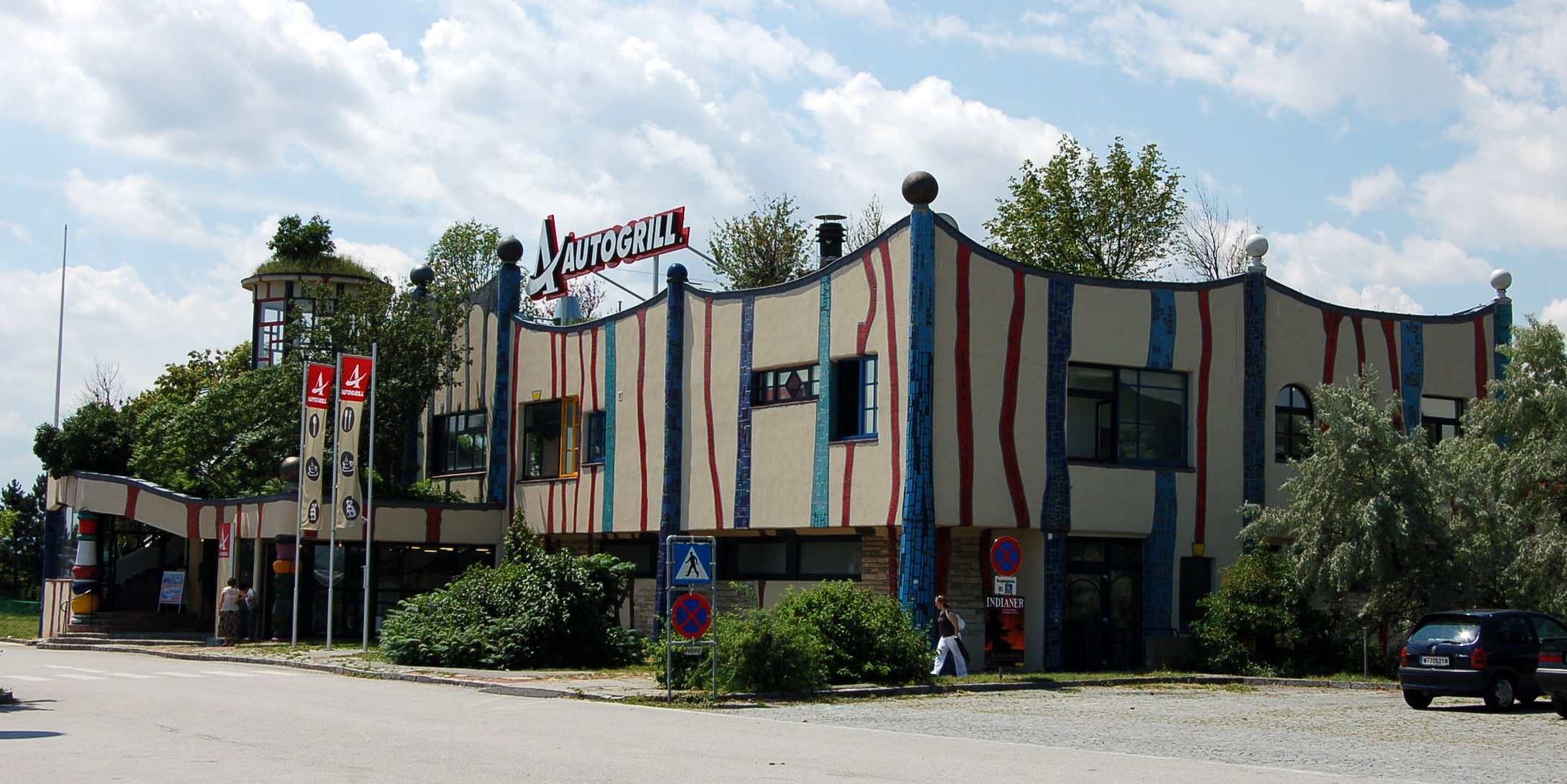 Bad Fischau rest area at A2 Südautobahn (Southern Motorway), Lower Austria. The building was designed by Friedensreich Hundertwasser.